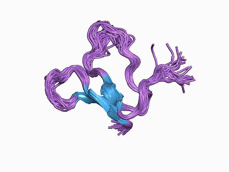 Cartoon representation of the molecular structure of protein registered with 1cix code.